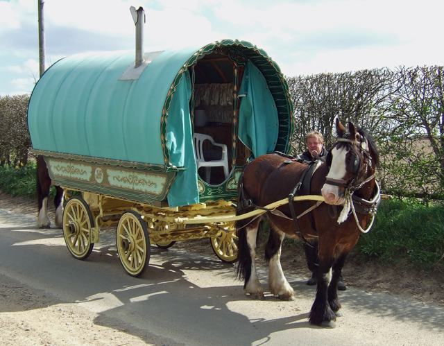 Romany Caravan on Horkstow Road A sight seldom seen nowadays and brought to mind the old song: There were three gypsies a come to my door And downstairs ran this lady, O! One sang high and another sang low And the other sang bonny, bonny, Biscay, O! Then she pulled off her silk finished gown And put on hose of leather, O! The ragged, ragged, rags about our door She's gone with the raggle taggle gypsies, O! It was late last night, when my lord came home Enquiring for his a-lady, O! The servants said, on every hand She's gone with the raggle taggle gypsies, O! O saddle to me my milk-white steed Go and fetch me my pony, O! That I may ride and seek my bride Who is gone with the raggle taggle gypsies, O! O he rode high and he rode low He rode through woods and copses too Until he came to an open field And there he espied his a-lady, O! What makes you leave your house and land? What makes you leave your money, O? What makes you leave your new wedded lord? To go with the raggle taggle gypsies, O! What care I for my house and my land? What care I for my money, O? What care I for my new wedded lord? I'm off with the raggle taggle gypsies, O! Last night you slept on a goose-feather bed With the sheet turned down so bravely, O! And to-night you'll sleep in a cold open field Along with the raggle taggle gypsies, O! What care I for a goose-feather bed? With the sheet turned down so bravely, O! For to-night I shall sleep in a cold open field Along with the raggle taggle gypsies, O!